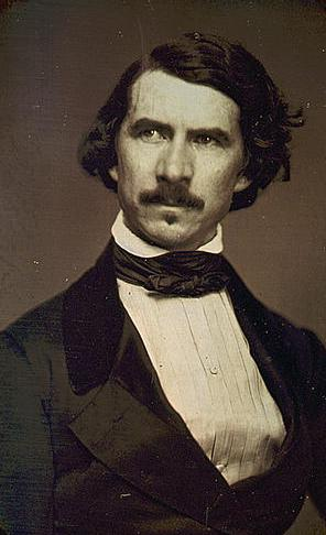 Daguerreotype of George Peter Alexander Healy